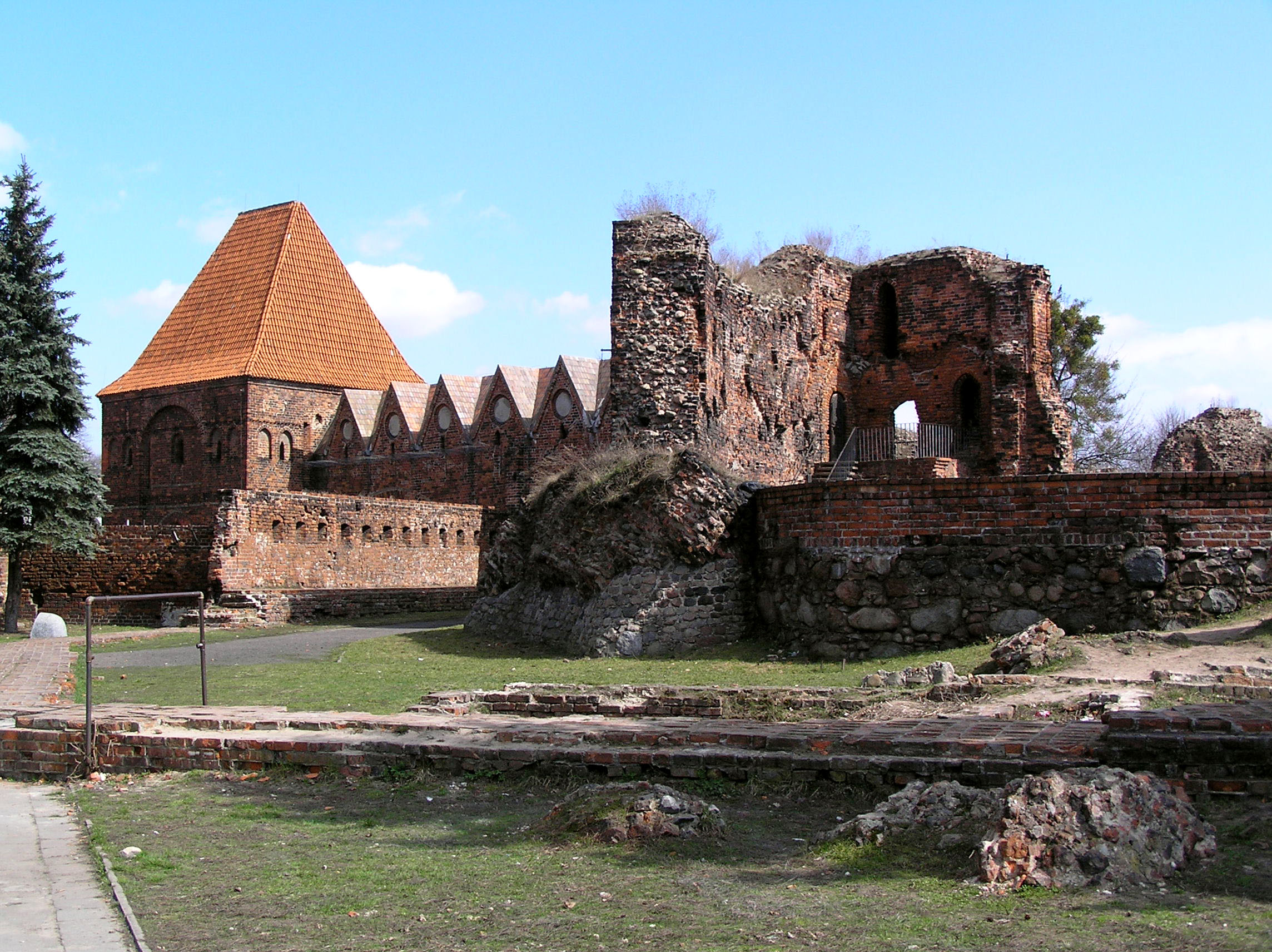 Toruń, Teutonic Knights Castle, ruins of the castle and latrine tower.